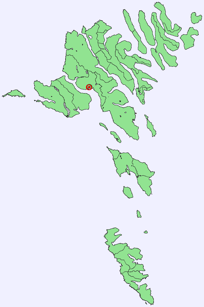 Position of Kvivik in the Faroe Islands